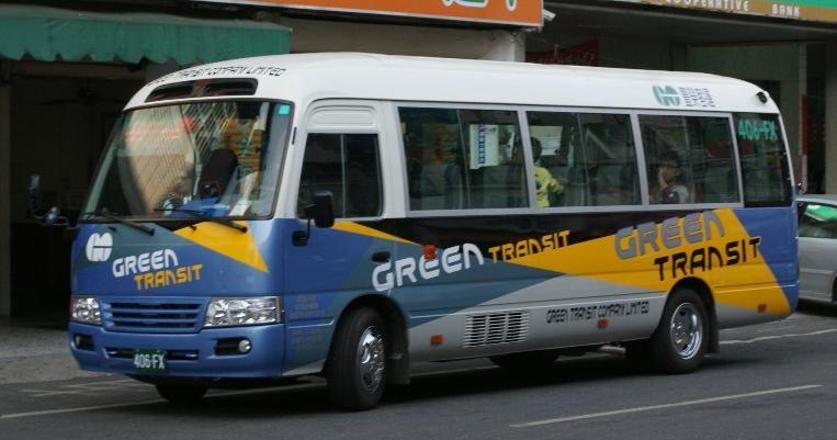 Green Transit Medium Bus 406-FX